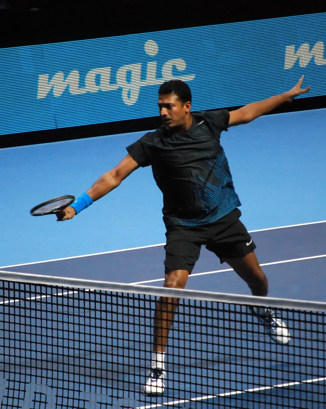 ATP World Tour Finals, the O2, London November 2011.